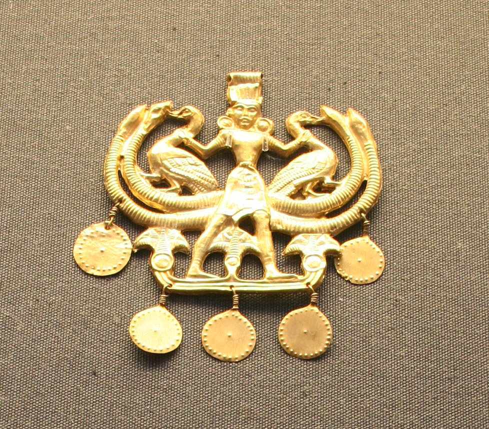 Part of the Aegina treasure. This golden pendant is called "Master of Animals". It is interpreted as showing an Cretan god in a field of lotus flowers. In each hand he holds a goose, while the background is composed of two unidentified objects that are considered to be either connected to "cult horns", the sacred horns of bulls, or maybe composite bows. British Museum Catalogue Jewellery #762. Description after Higgins: The Aegina Treasure, 1979